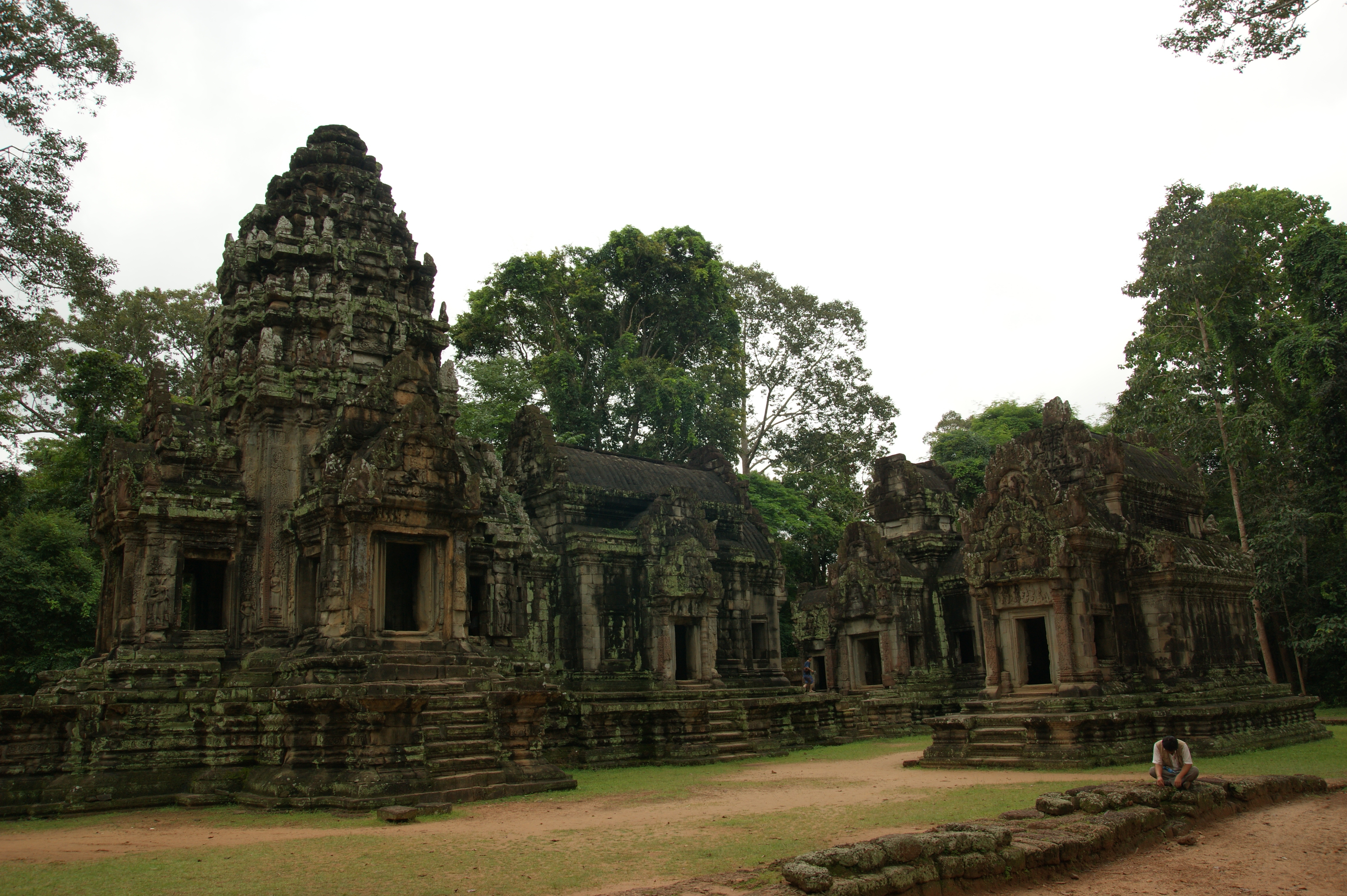 A series of separate structures at the Angkor Thommanon temple in Siem Reap, Cambodia. This Hindu temple was completed in the early 12th century by king Suryavarman II of the Khmer Empire. Suryavarman II was the builder of Angkor Wat and ruled his kingdom for more than 30 years in the 12th century.